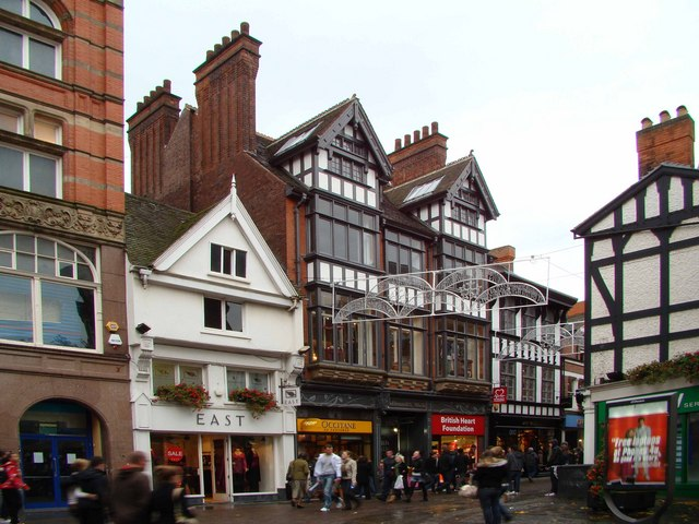 Bridlesmith Walk A recently created arcade of retail units off Bridlesmith Gate runs through the fine chimneyed building centre frame.